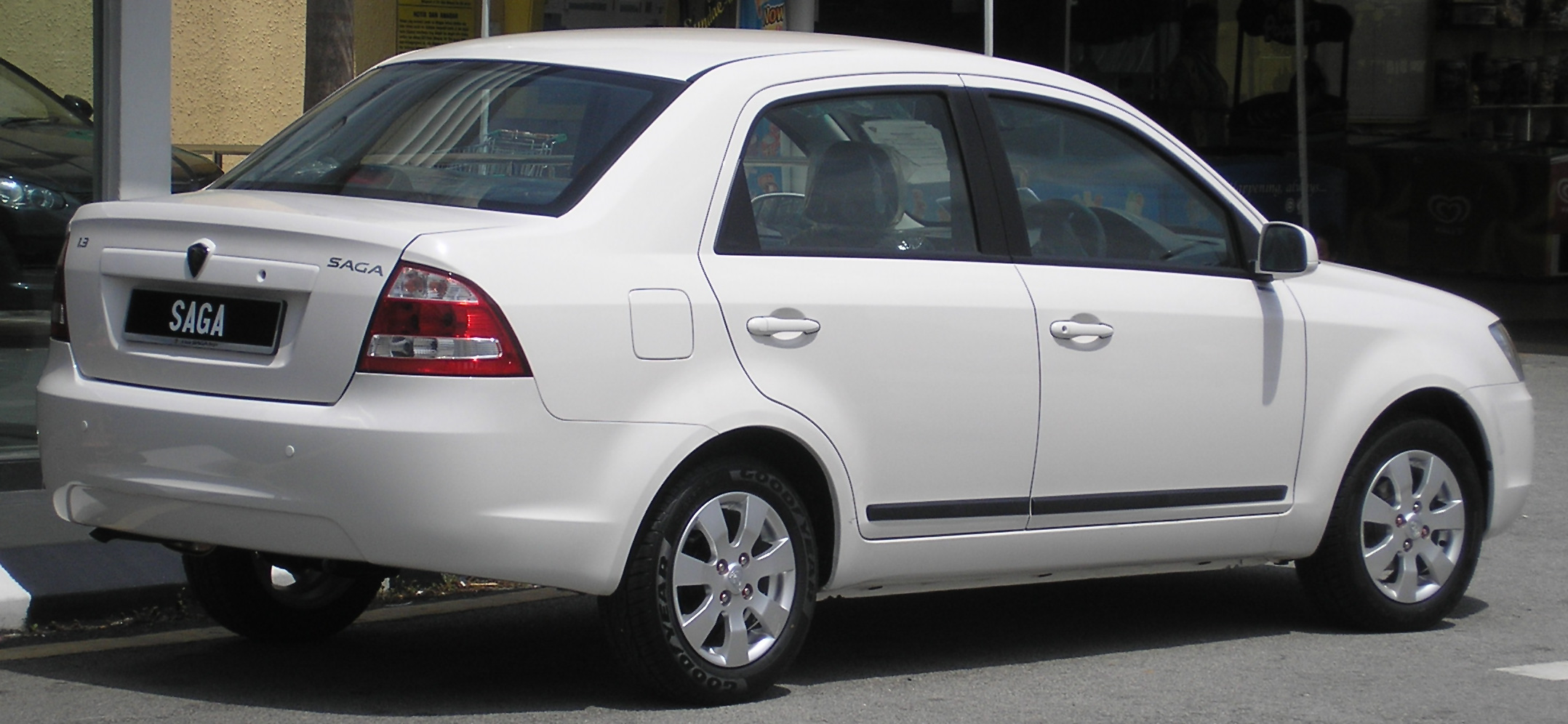 Rear quarter view of a second generation Proton Saga (aka the Proton BLM), in Serdang, Selangor, Malaysia.